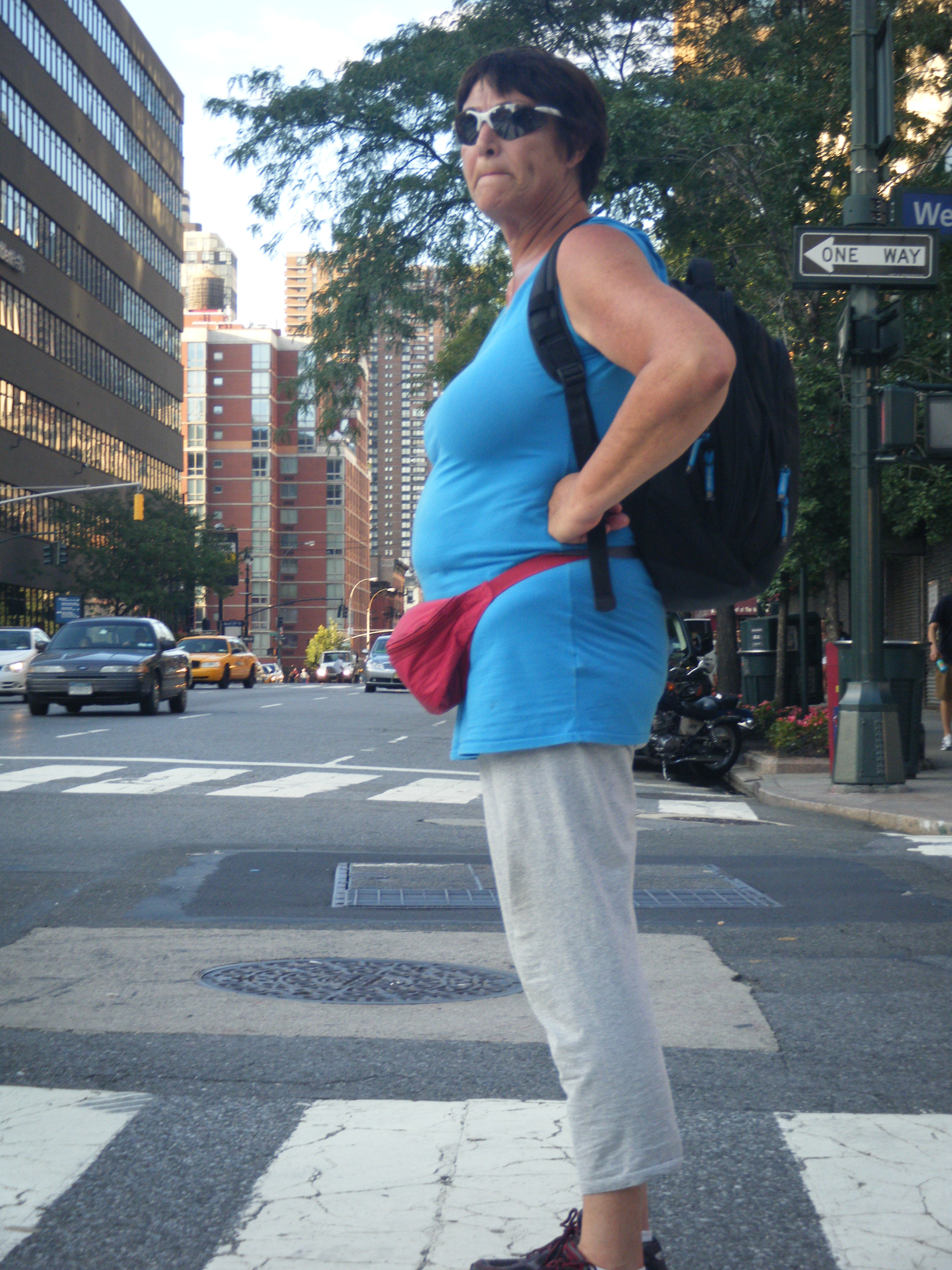 A woman in New York City sporting a red fanny pack.